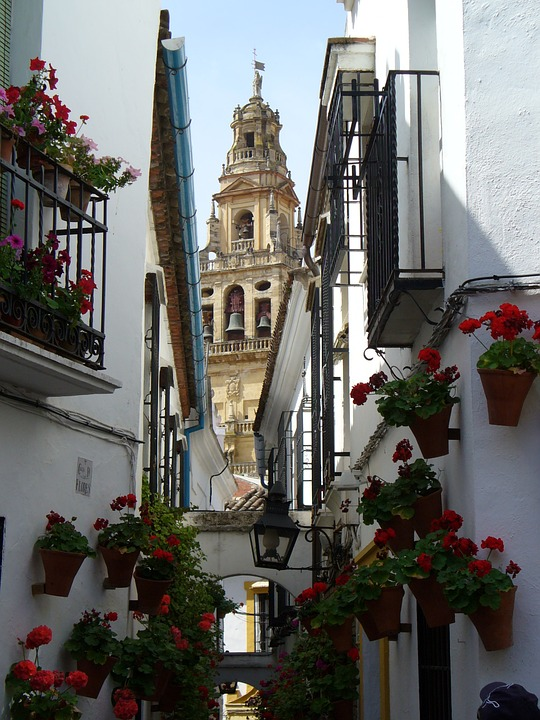 Córdoba